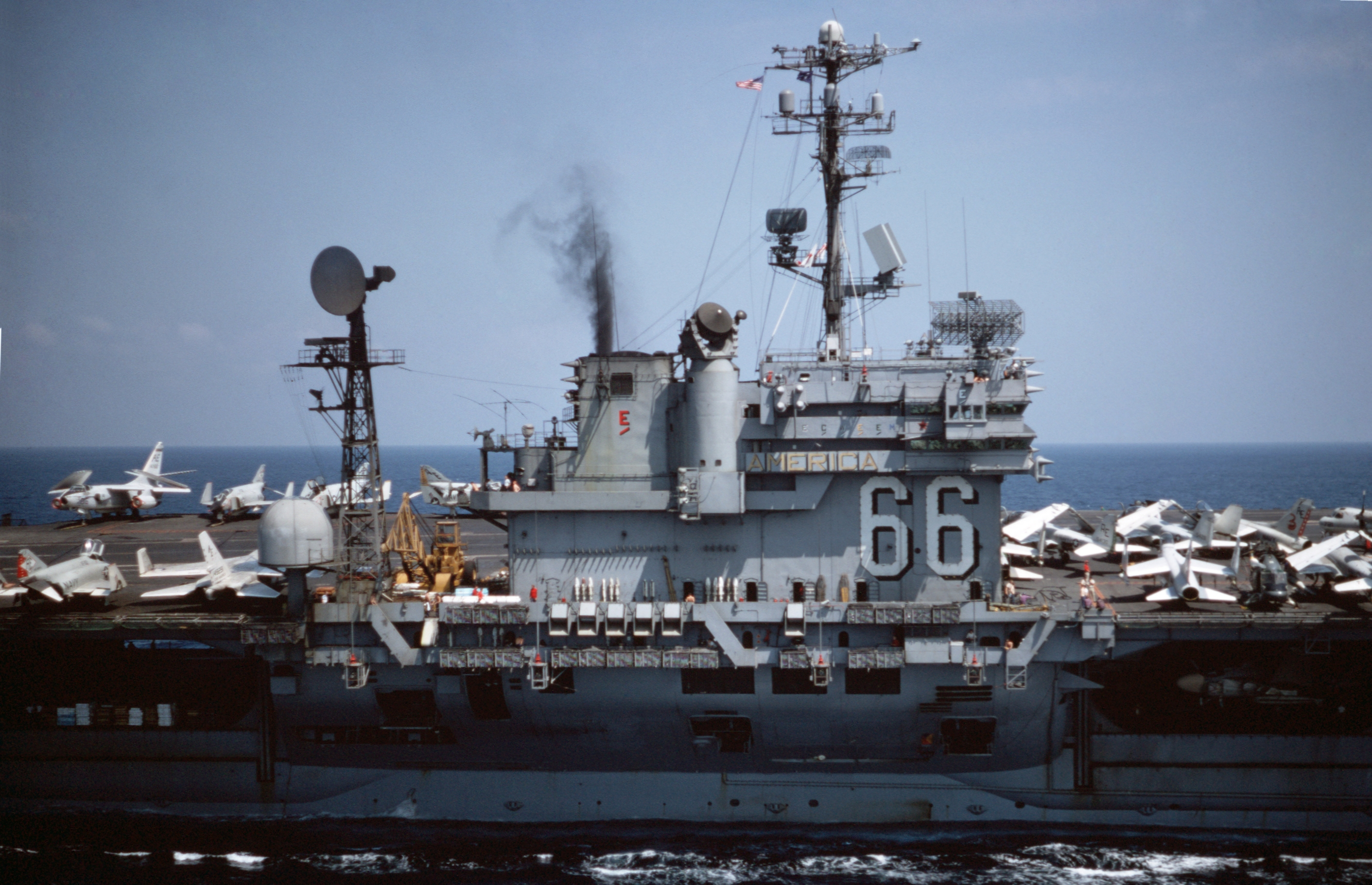 A starboard view of the island of the aircraft carrier USS America (CVA-66). Note: Due to the air wing composition this photo was taken during the carrier's deployment to Vietnam with Carrier Air Wing 6 (CVW-6) from 10 April to 16 December 1968.